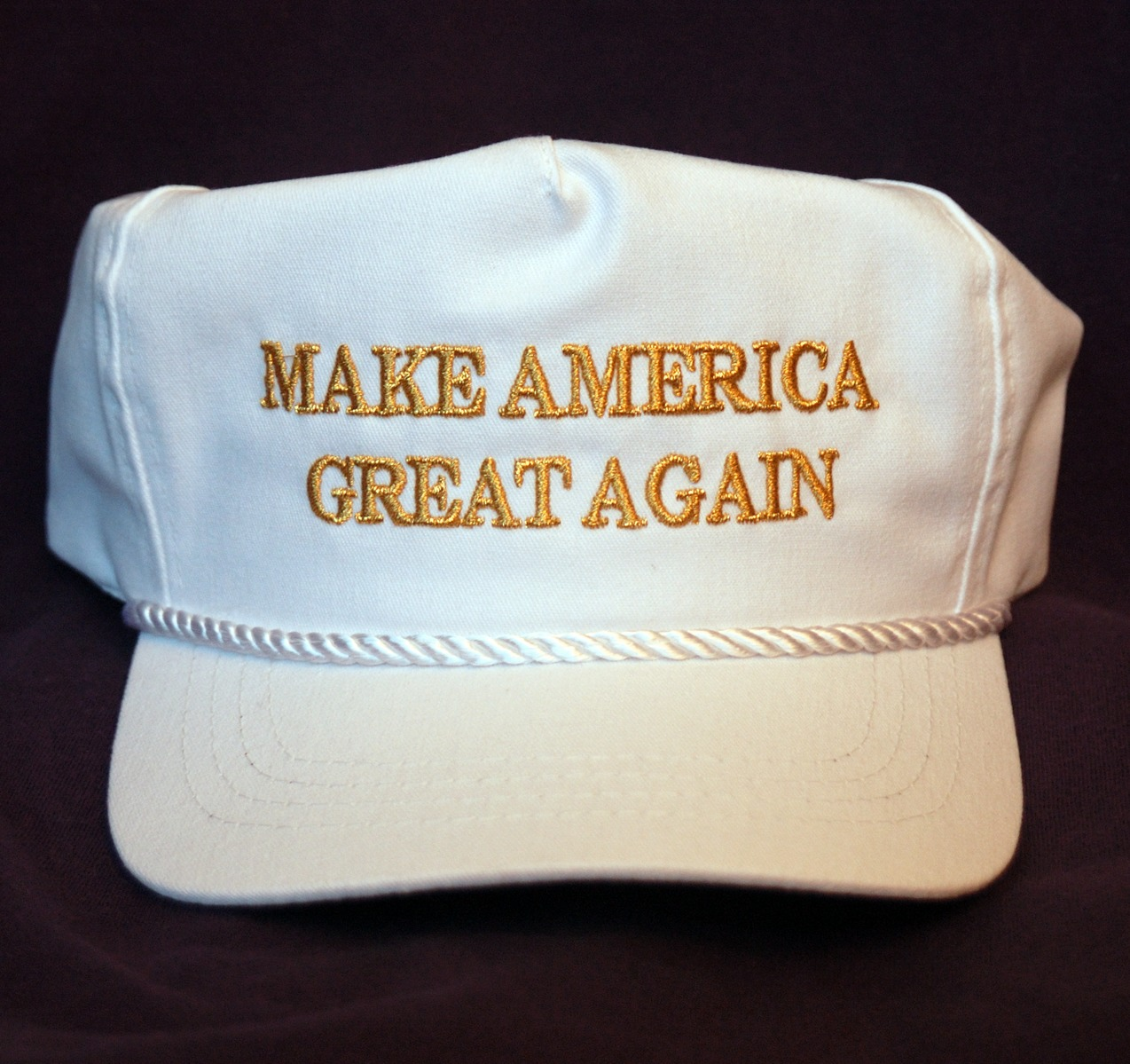 "Make America Great Again" is Donald Trump's slogan in his 2016 presidential campaign, seen emblazoned on the official campaign hat.